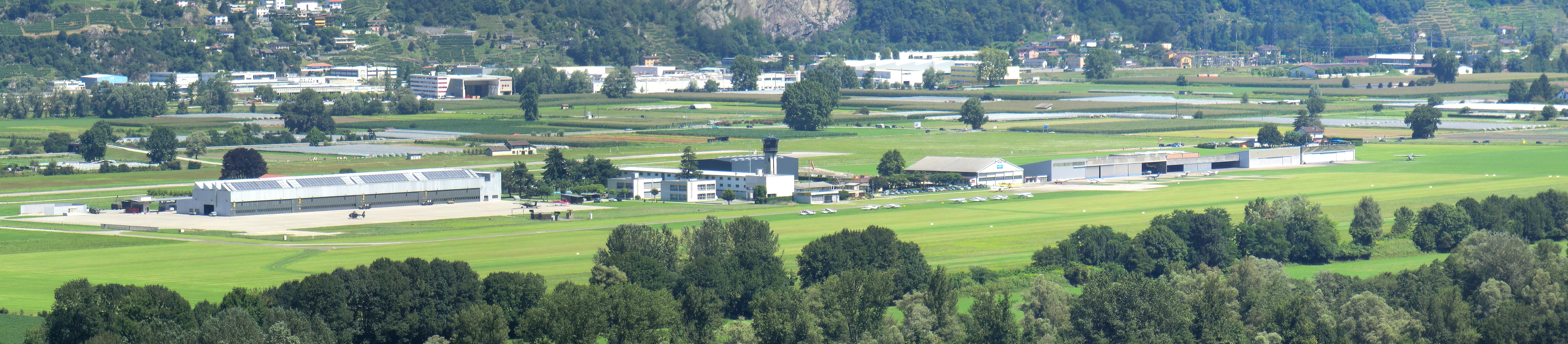 Panorama view of the Airport of Locaro (Aeroporto Cantonale die Locarno)